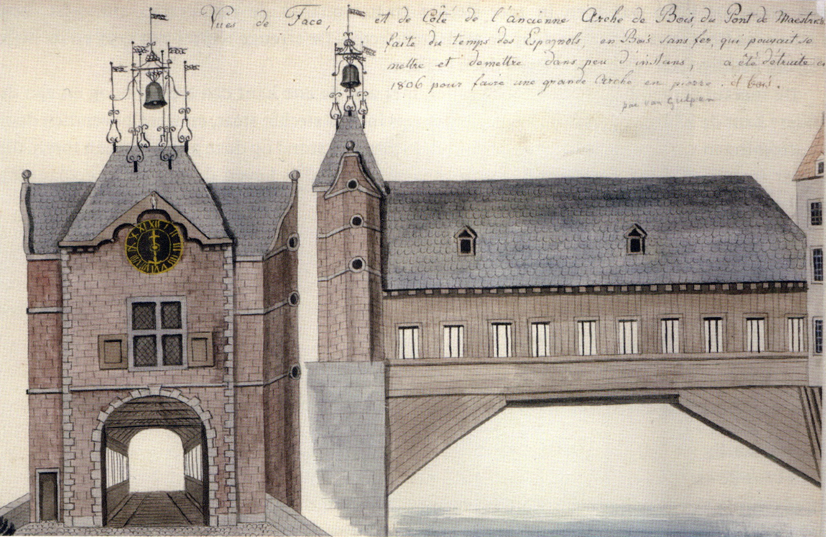 Maastricht, the Netherlands. Drawing of the wooden arch and stone gate of the Medieval bridge over the river Meuse in Maastricht. The drawing by Philippe van Gulpen reflects the situation before 1801, when the gate was demolished. The wooden part was replaced by a stone arch in 1827.